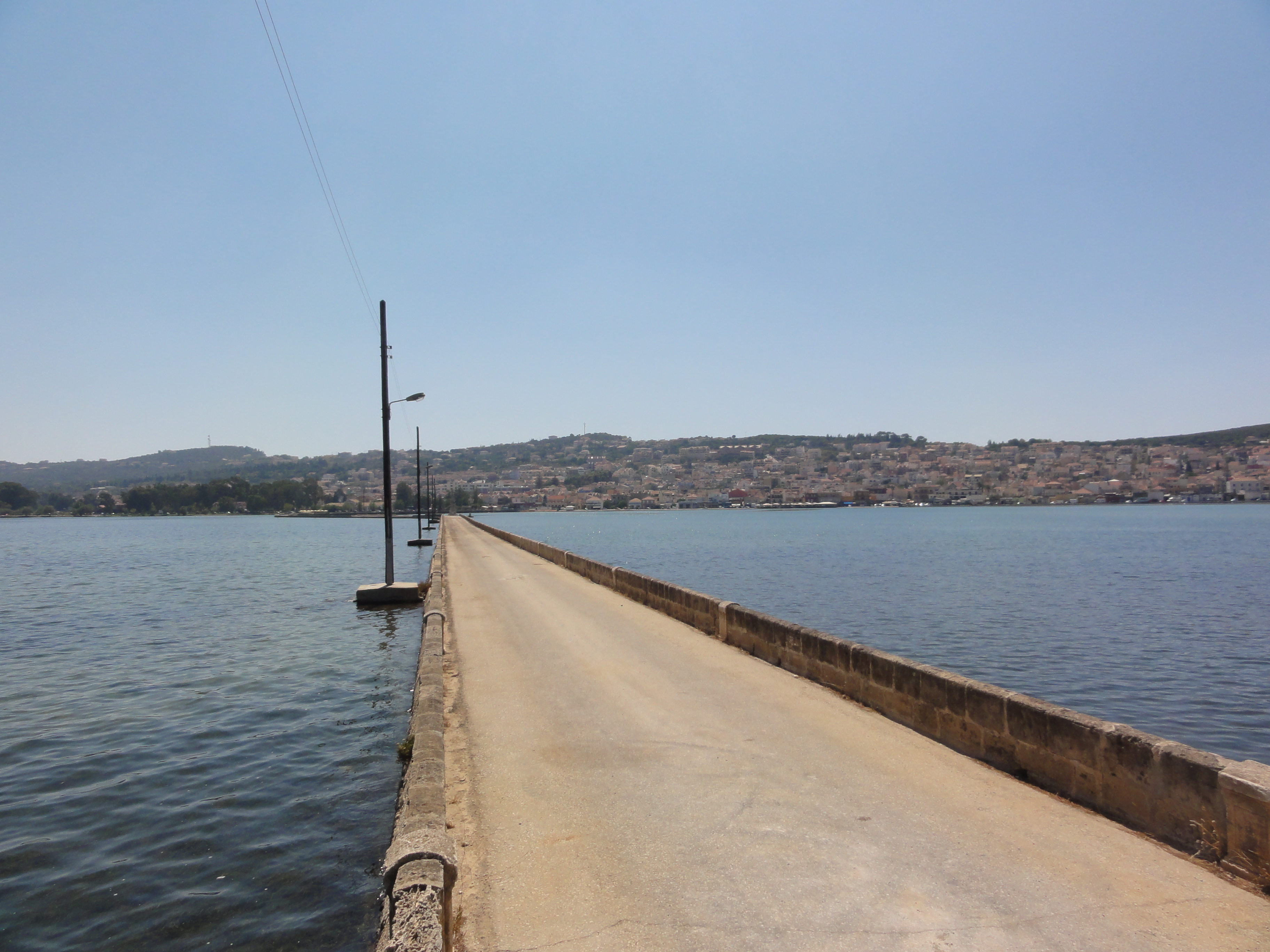 Photograph taken in Kefalonia.